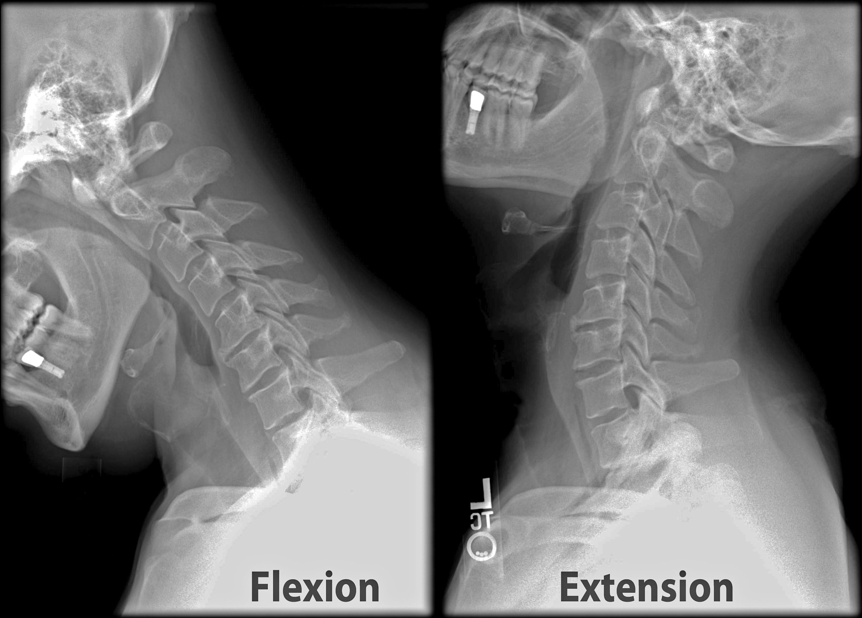 X-ray of cervical spine (neck) in flexion and extension (bending backwards). This series of x-rays were part of pre-surgical evaluation to help identify spinal instability. Patient is a 37 year old male with a history of multiple neck traumas with pain and muscle spasms and dental implant in lower jaw. Excerpt from radiologist's report: FINDINGS: Five views of the cervical spine, including flexion and extension, were performed. There is no evidence of fracture, bone destruction, or malalignment. There are degenerative bone and is changes at C5-6. There is no evidence of cervical instability on the flexion and extension views. The facet joints are well aligned. Bony spurring is narrowing the C5-6 neural foramina bilaterally. IMPRESSION: Degenerative changes at C5-6. No evidence of instability.